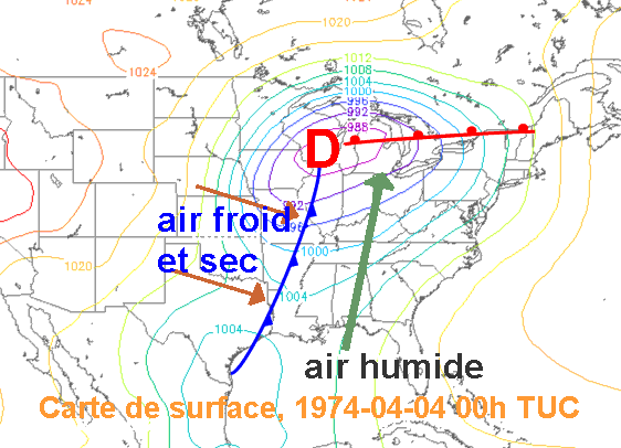 Surface map of the United States at 6:00 PM CST on April 3, 1974 at the peak of Super Outbreak tornado event. The center of the low at that time was situated over southern Wisconsin with a warm front strechting into southern Quebec and a cold front stretching south towards the Texas Gulf Coast.